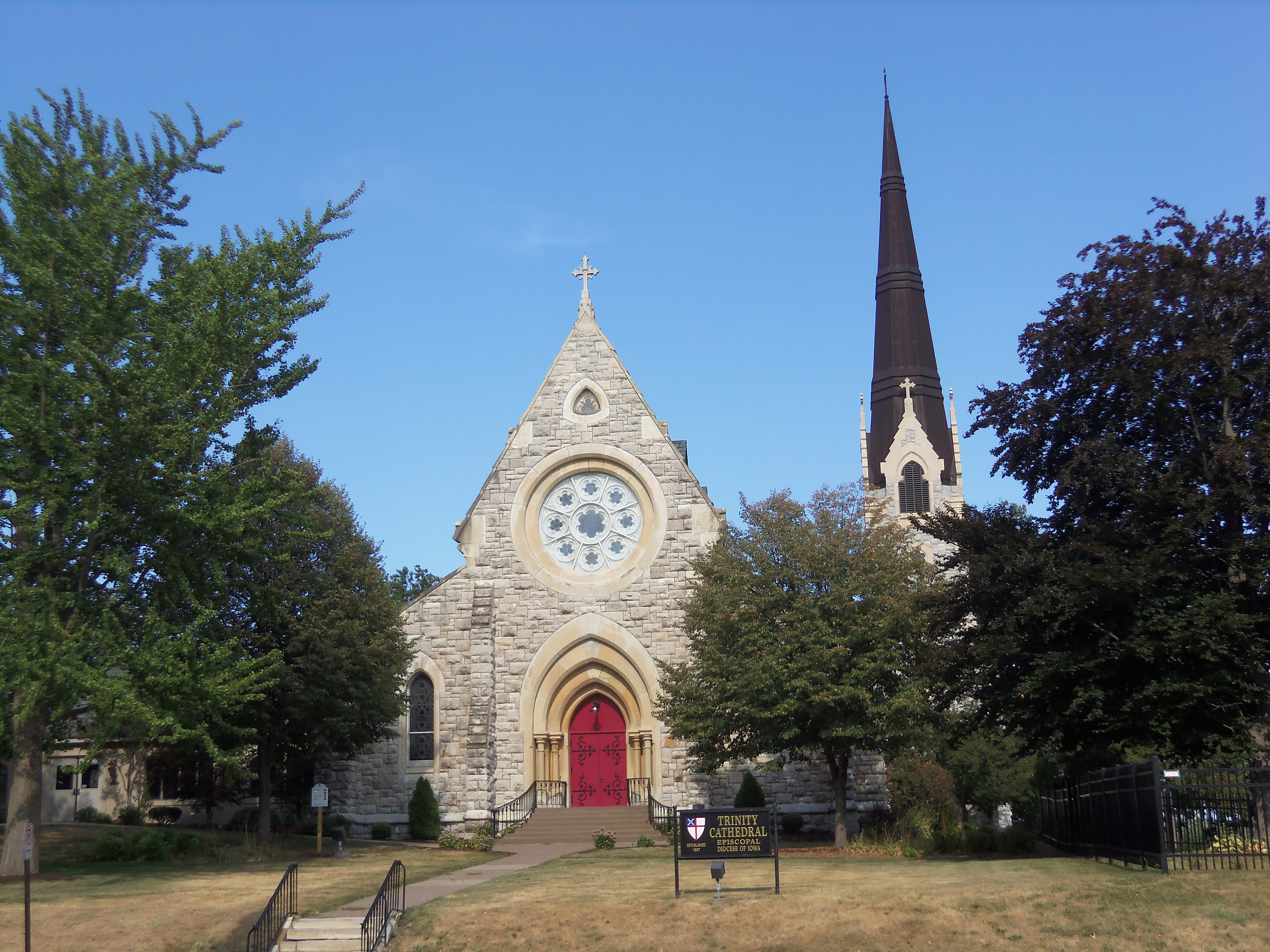 Trinity Cathedral, Davenport, Iowa, is the historic cathedral of the Episcopal Diocese of Iowa. It is listed on the National Register of Historic Places.